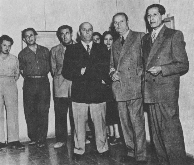 Opening of the 2nd Ofakim Hadasim exhibition at the Tel Aviv Museum. from left: Pinhas Abramovic, Yehezkel Streichman, Aharon Kahana, Avraham Naton (Natanson), Joseph Zaritsky